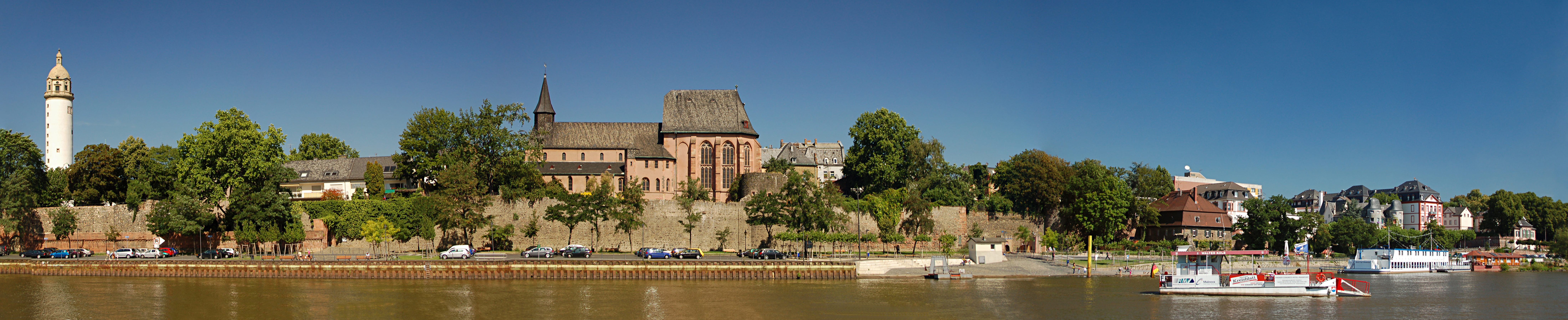 Panoramic of the Main river bank and the old town wall in Frankfurt-Höchst Donjon of the castle, town wall with Main River gate, Saint Justinus' church, Main River mill, hotelship "Peter Schlott", Nidda River estuary, former Bolongaro's cigar manufactory, Bolongaro Palace